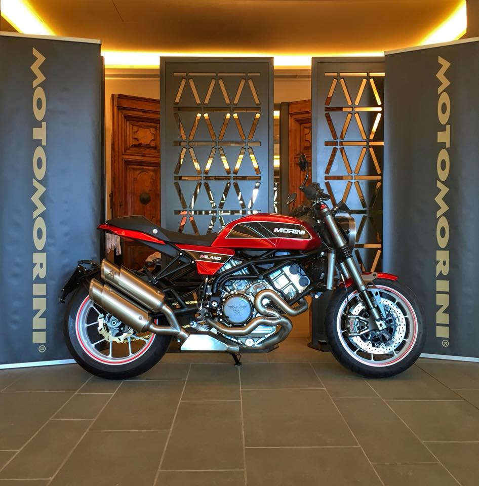 Moto Morini's 2018 model: Moto Morini Milano